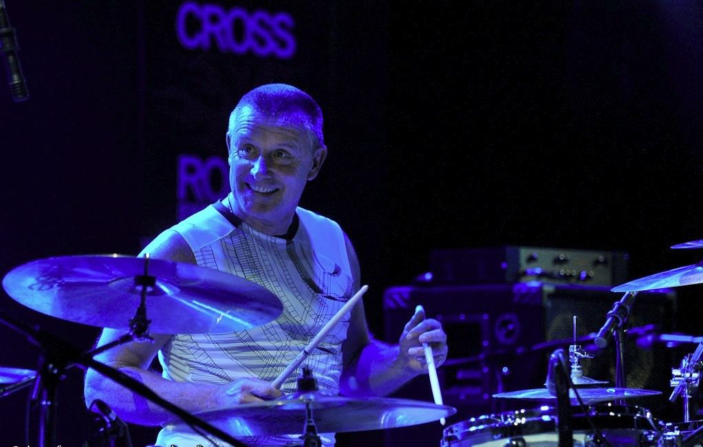 Carl Palmer Band (Roma 2009) Crossroads Live Club Roma, 12.11.2009